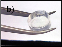 Photo of an experimental medical wound dressing material, held in forceps to demonstrate its stiffness Original caption (also CC-BY 4.0)ː "The gel stiffness increased after crosslinking and can be easily picked up with a pair of forceps, while remaining optically transparent."